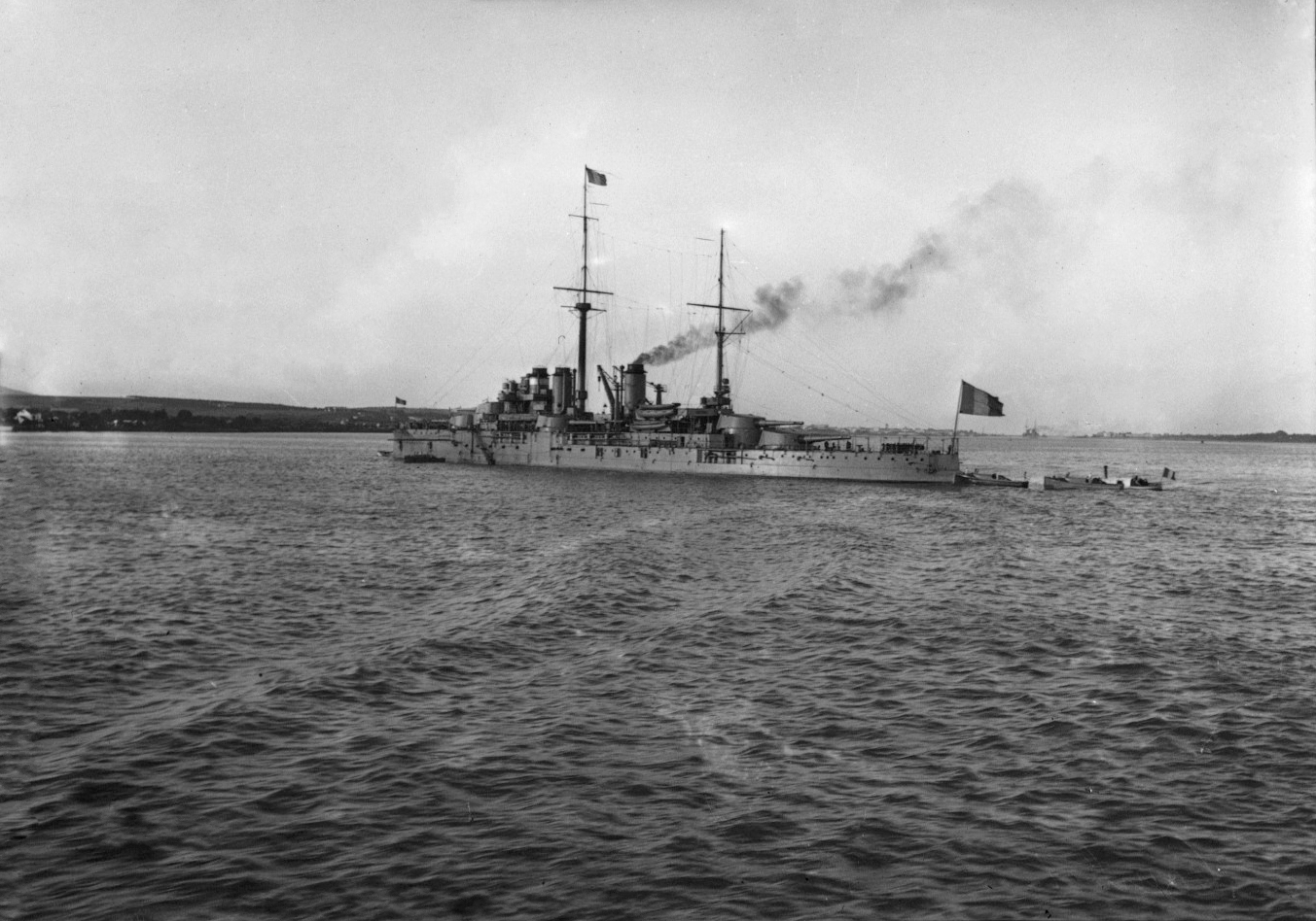 French battleship Courbet